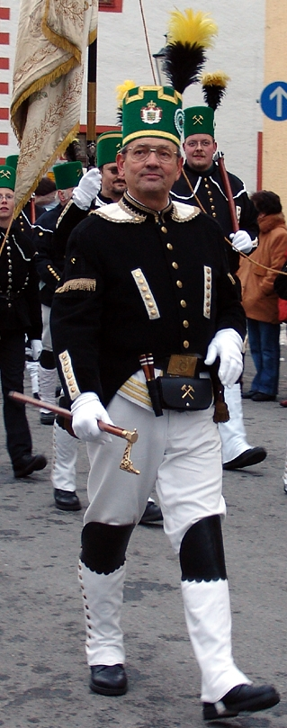 Miner's parade on Gaudete Sunday 2005. Marienberg, Ore Mountains, Saxony, Germany.